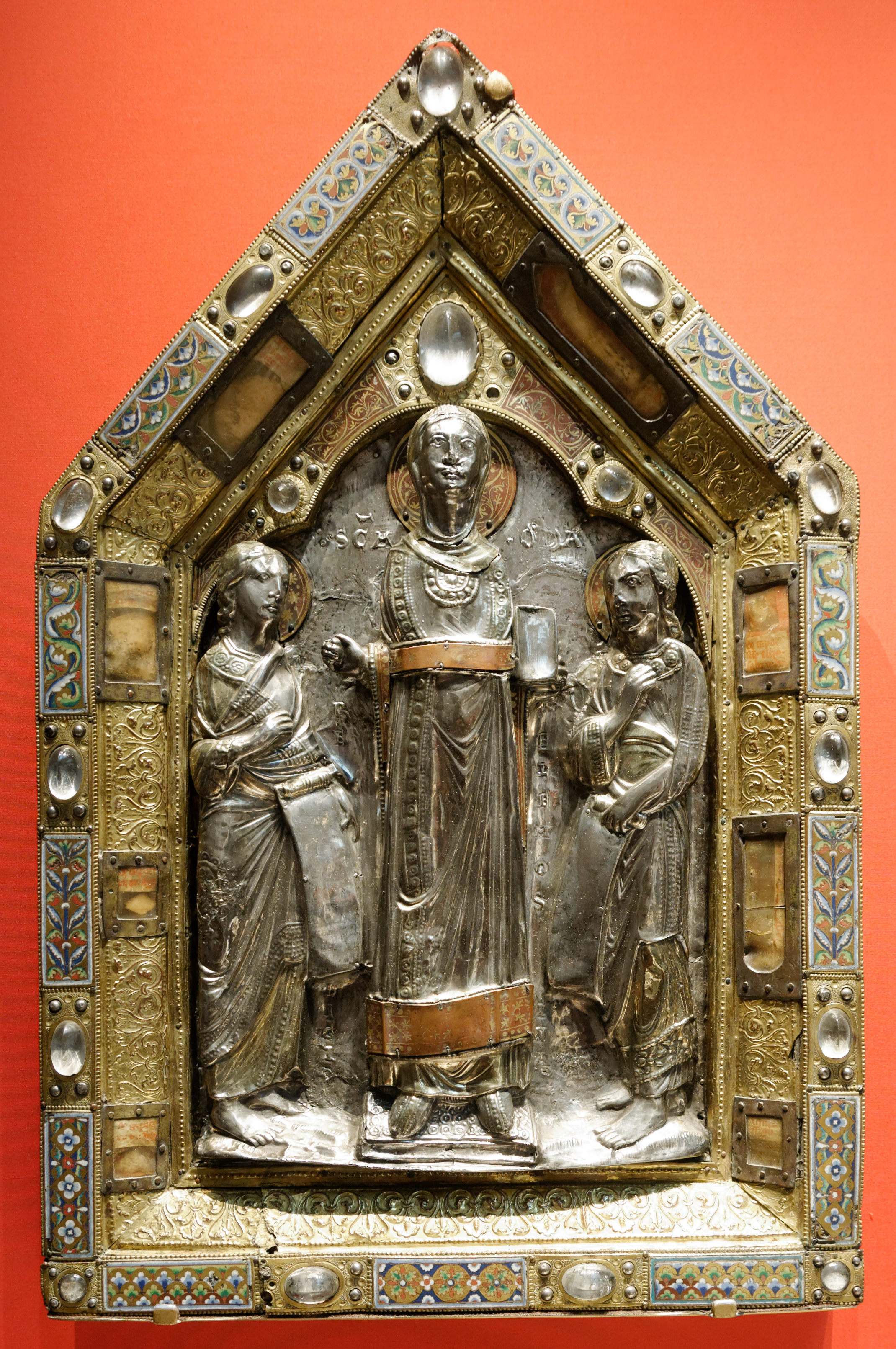 Gable-end of a shrine showing St Oda between the figures of Religion and Charity.